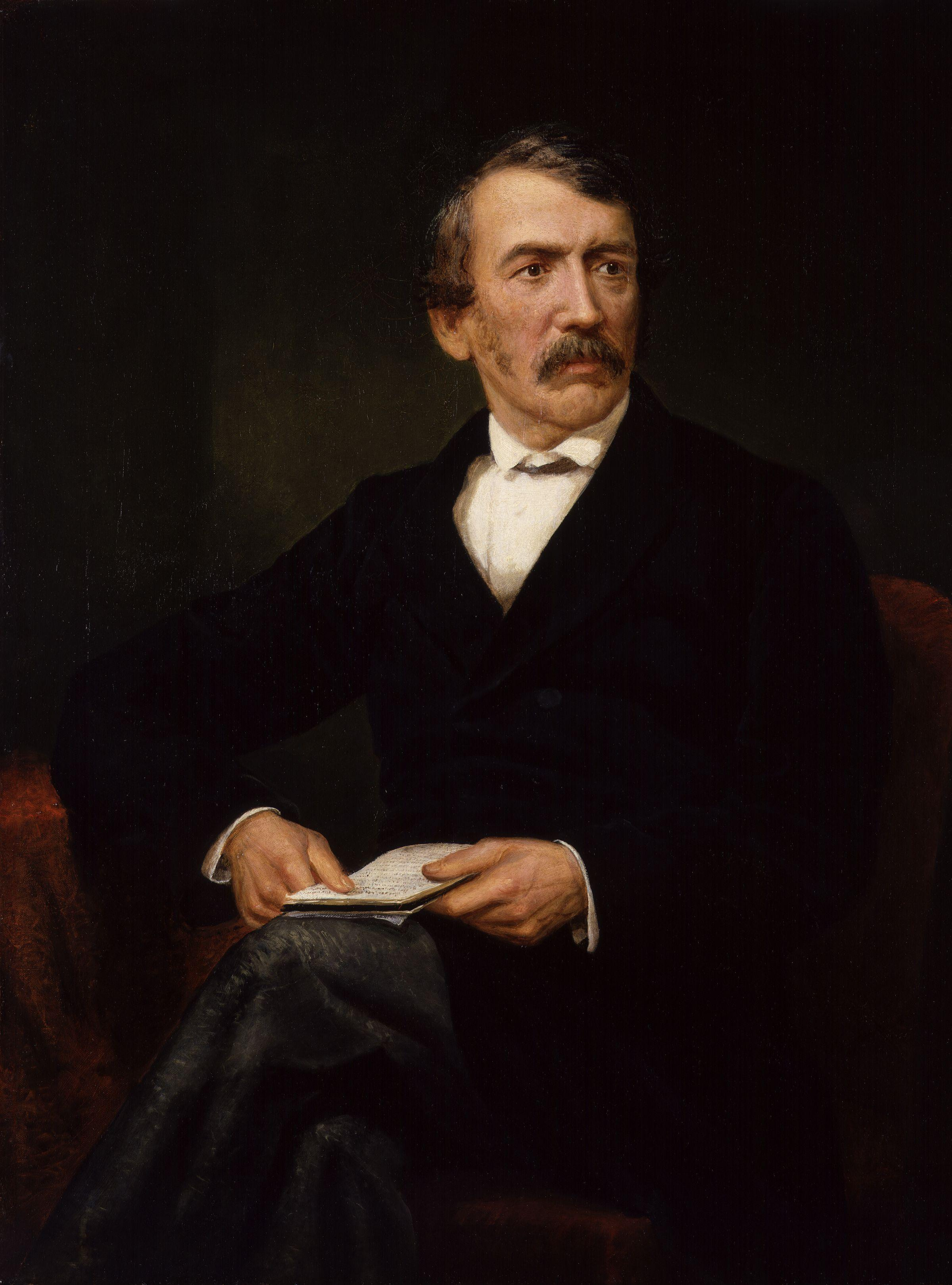 David Livingstone, by Frederick Havill, given to the National Portrait Gallery, London in 1896. All images in this batch have a known author, but have manually examined for strong evidence that the author was dead before 1939, such as approximate death dates, birth dates, floruit dates, and publication dates.